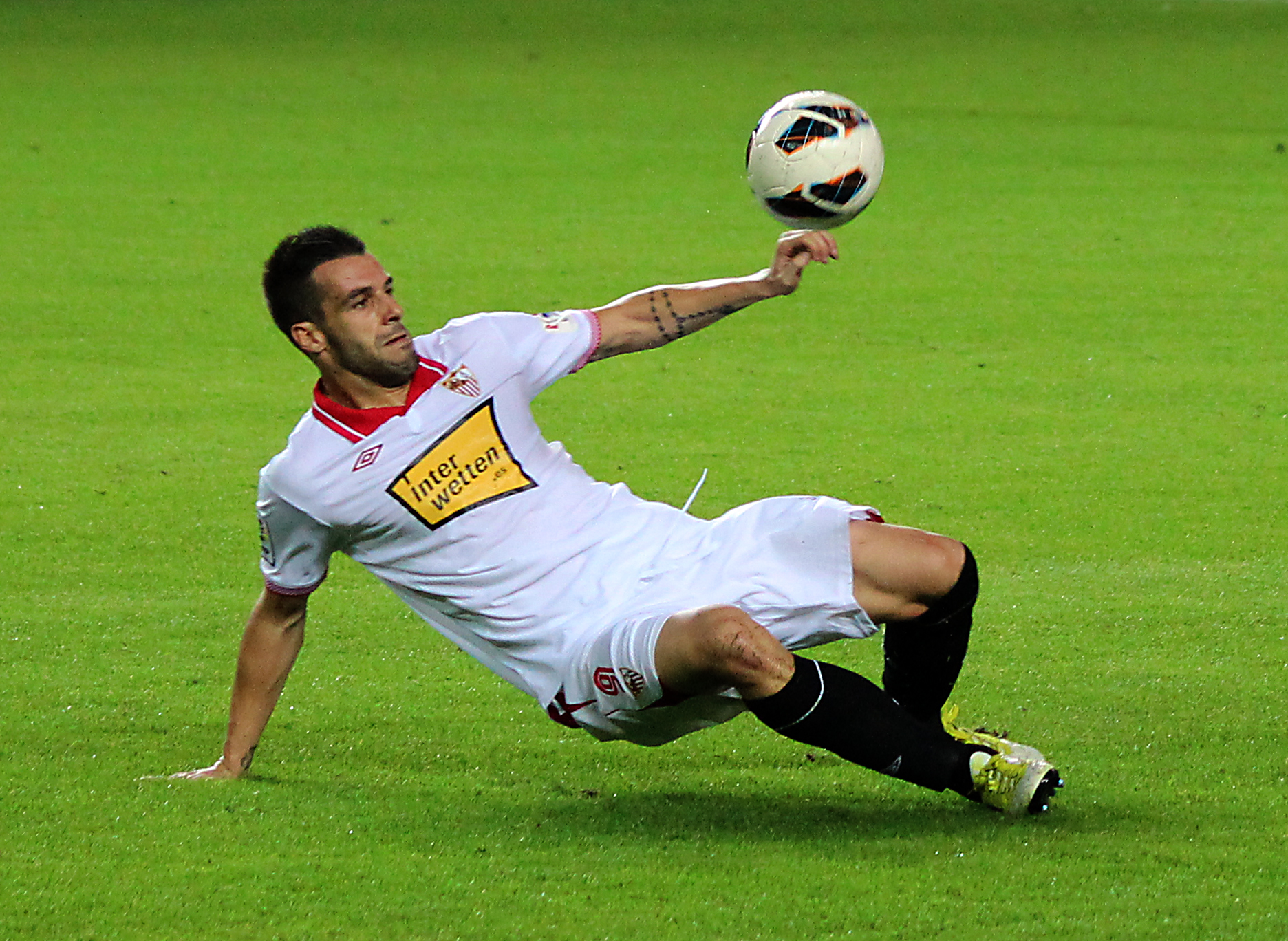 Spanish footballer who plays for Manchester city FC as a striker.